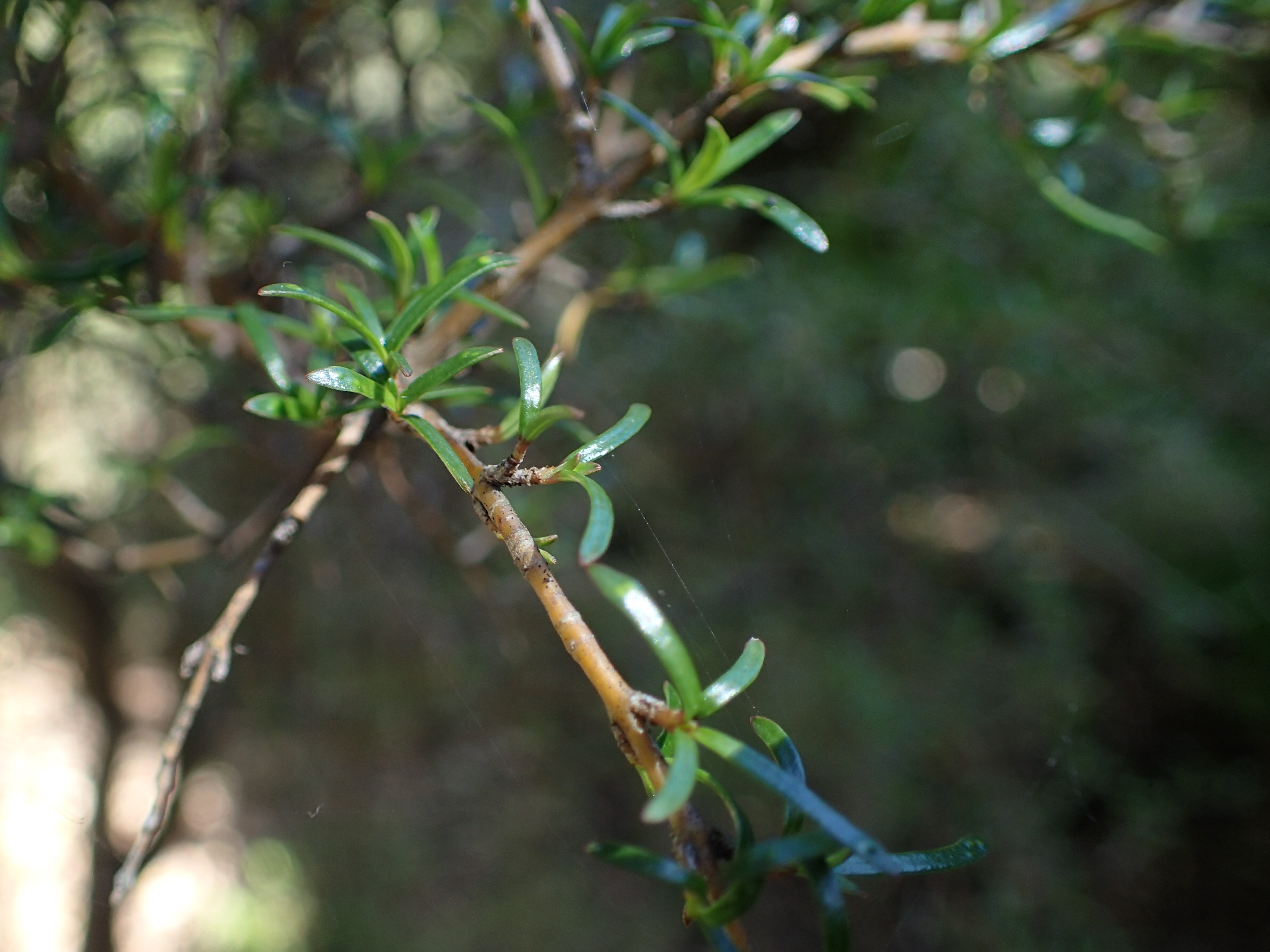 Coprosma rugosa in Dunedin Botanic Garden